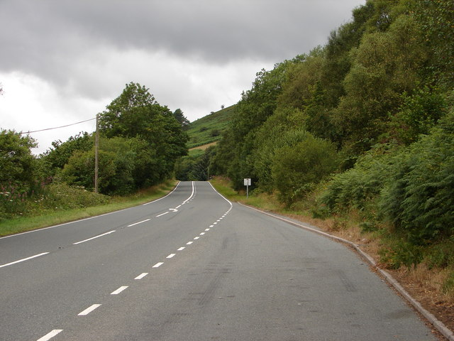 Lay-by on the A44 at Penlon, near to Pant Mawr, Powys, Great Britain. Looking towards Aberystwyth